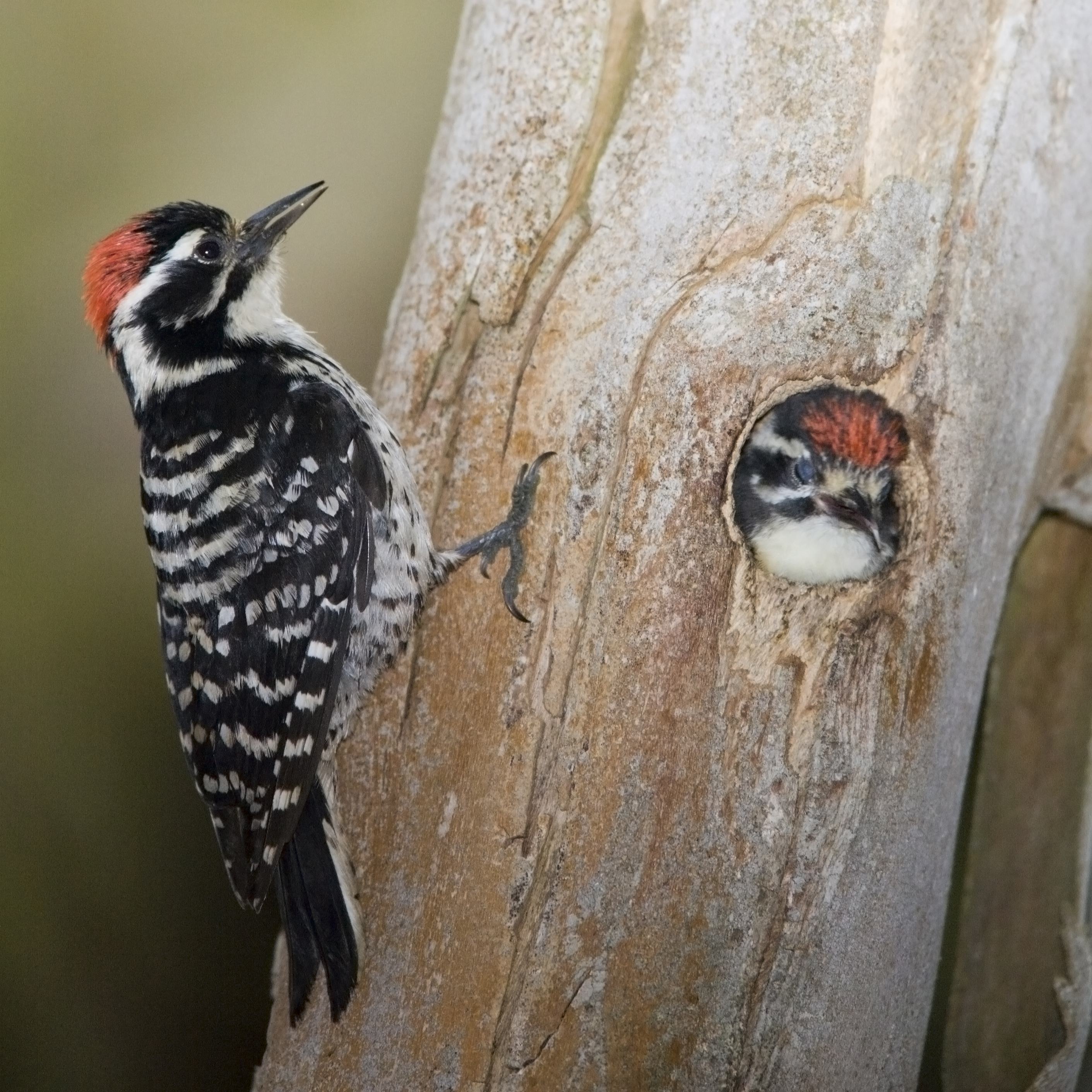 Nuttall's Woodpecker (Picoides nuttallii) in the Morro Bay "Heron Rookery" in Morro Bay, California.Nuttall's--woodpecker-family_G